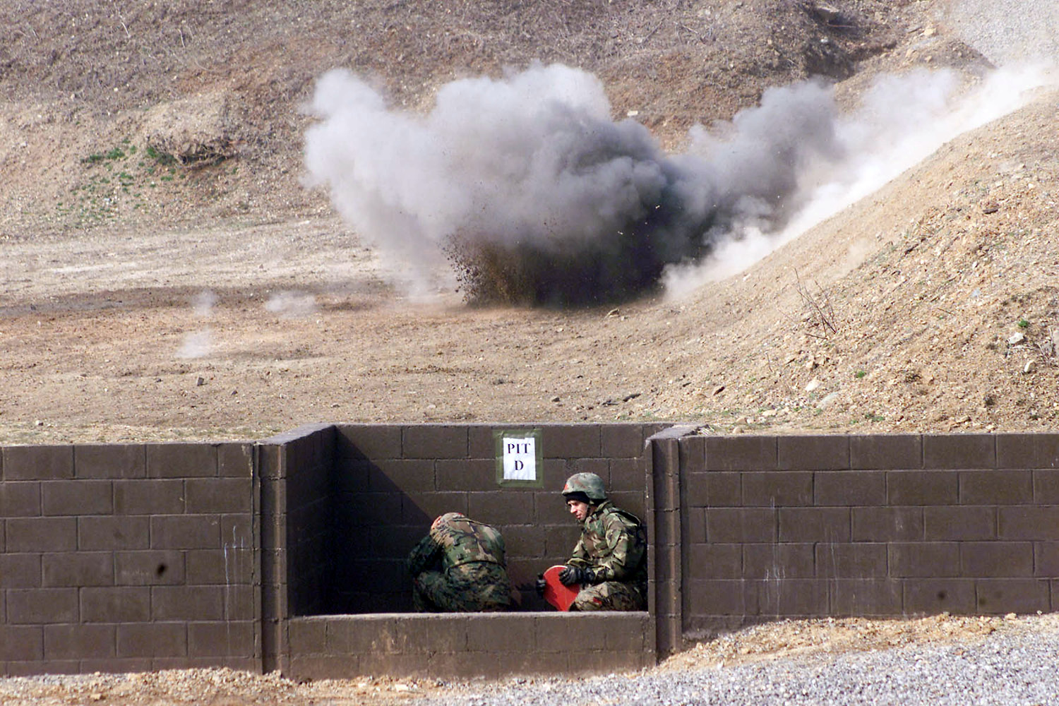 PhotoID: 200449152258 Submitted by: MCB Hawaii Operation/Exercise/Event: Freedom Banner/Foal Eagle 04 Caption: Marines with Transport Support Co., Combat Service Support Detachment 77, hunker down during M67 grenade training at Exercise Foal Eagle, March 22, at the Kansas Range, Western Corridor, Republic of Korea. Date the Photo was taken:04/12/2004